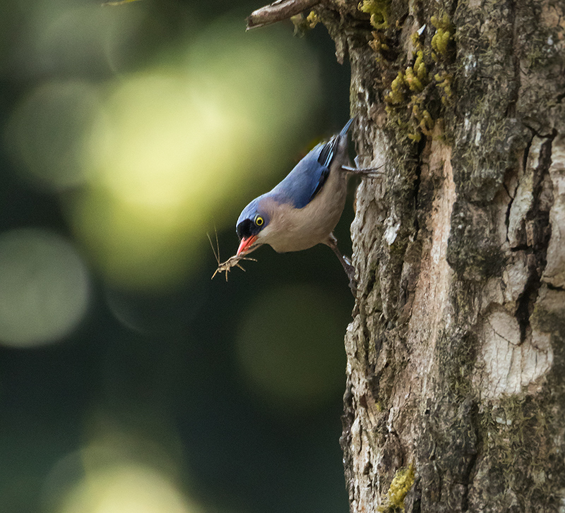 Velvet Fronted Nuthatch with Insect, female in southern India